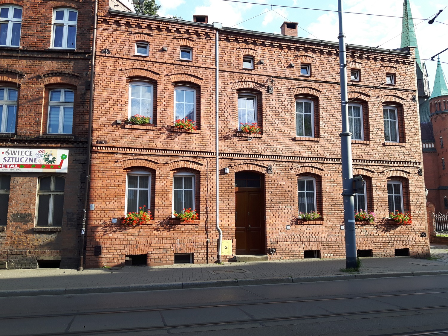 House no 74 on Gliwicka Street, Katowice, Poland